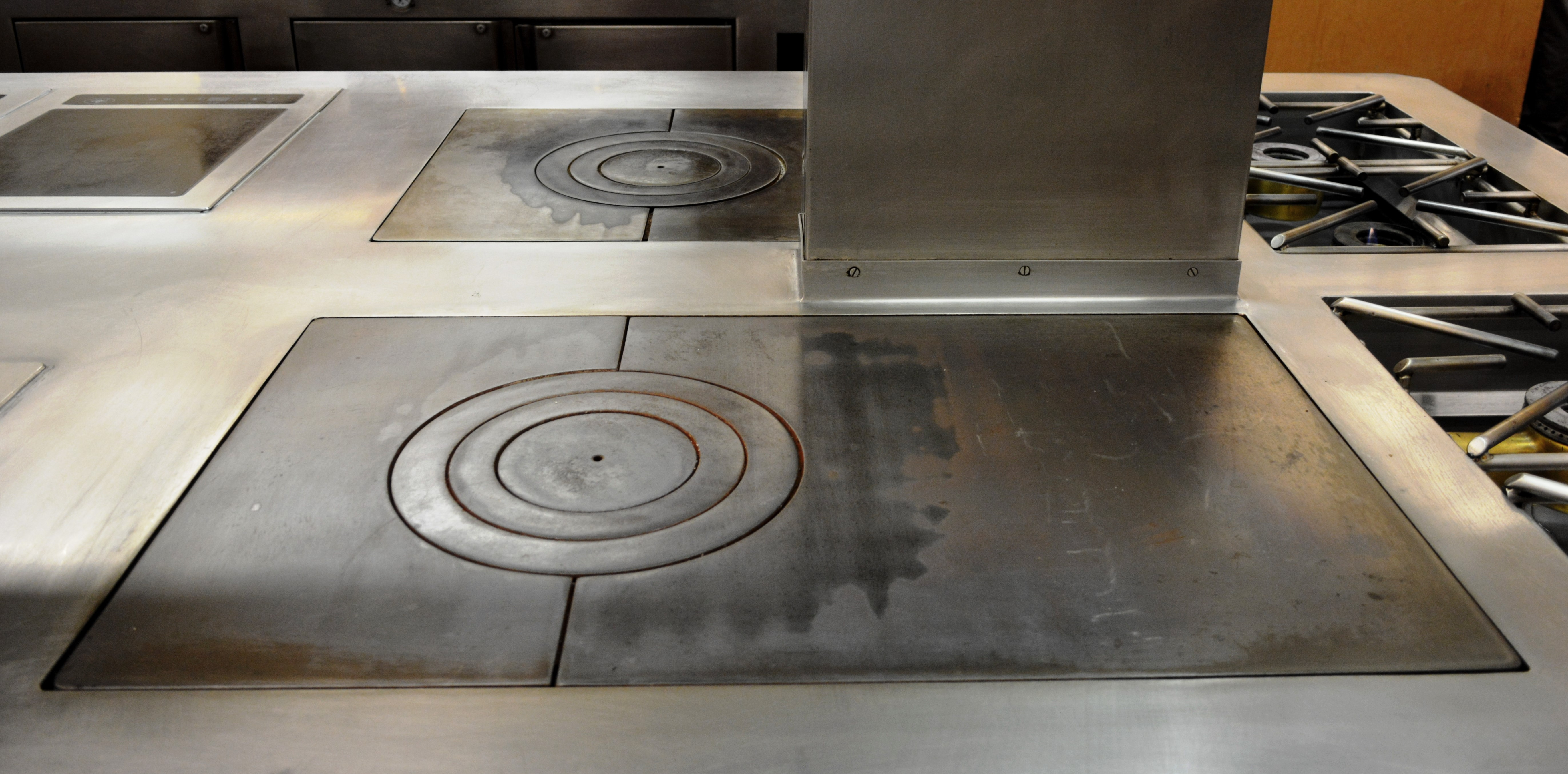 I took this photograph of a French top today.